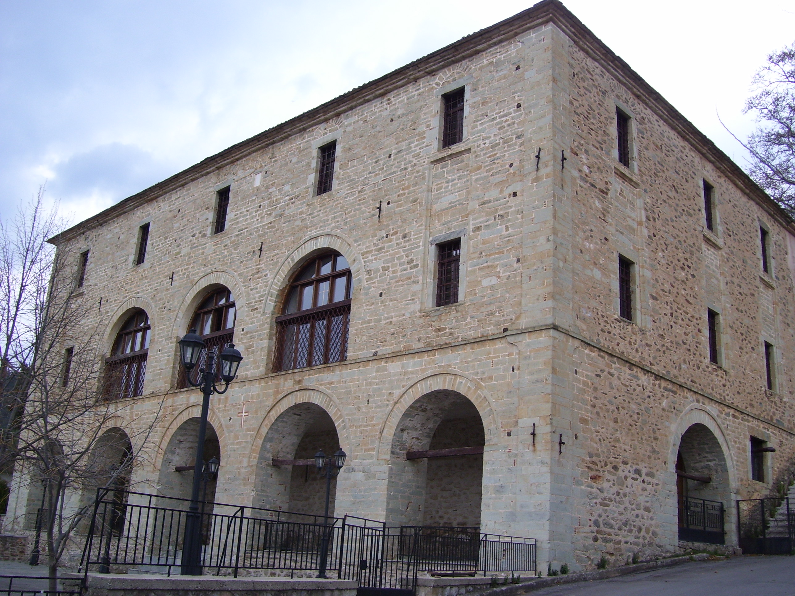 Church in the village of Vasiliada, Kastoria prefecture, Greece.